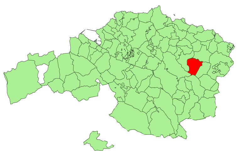 Munitibar-Arbatzegi Gerrikaitz municipality in the province of Biscay